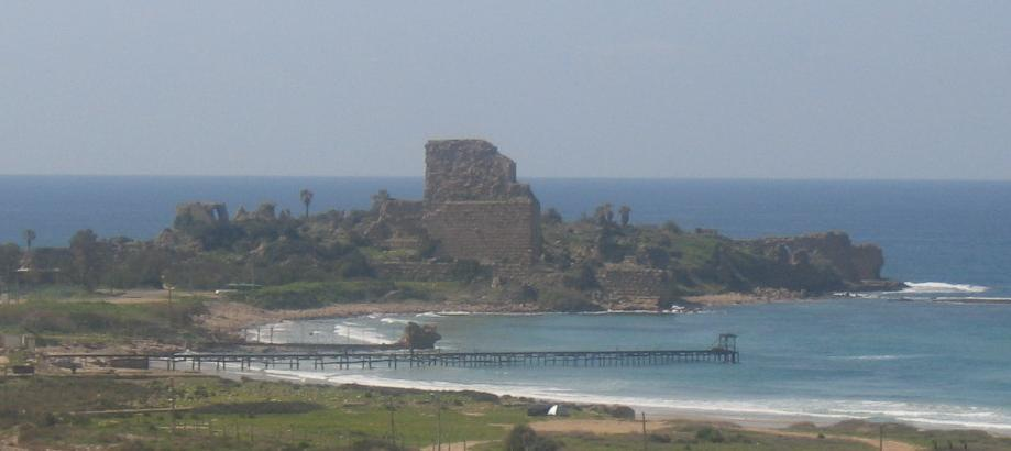 atlit fortress, Israel